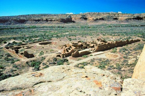 Chetro Ketl from the mesa top